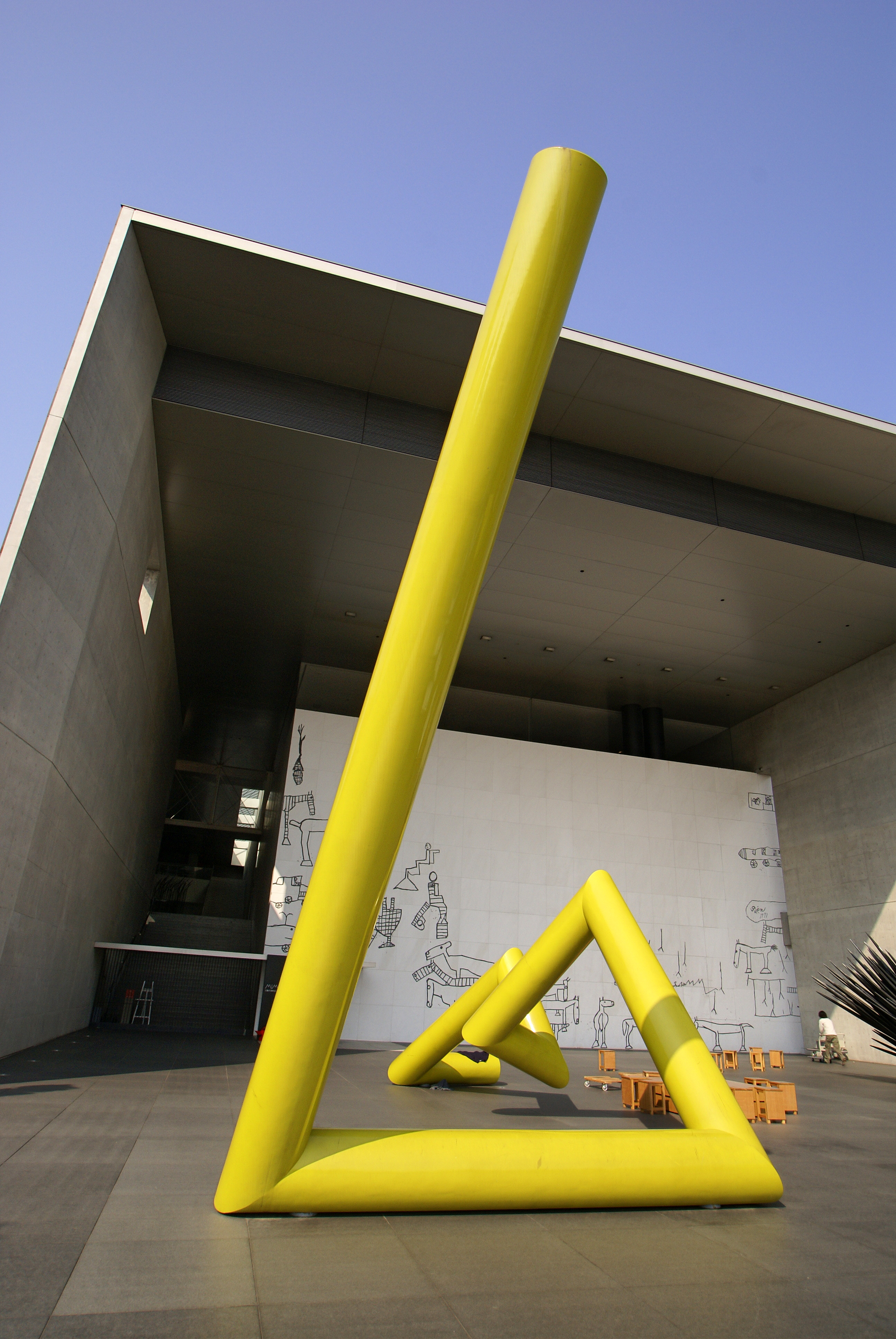 Marugame Genichiro-Inokuma Museum of Contemporary Art in Marugame, Kagawa prefecture, Japan